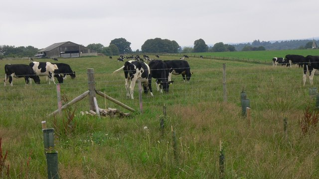 Cattle in field nearThursley Thursley church steeple, in the next grid square north, is on the extreme right of the picture.